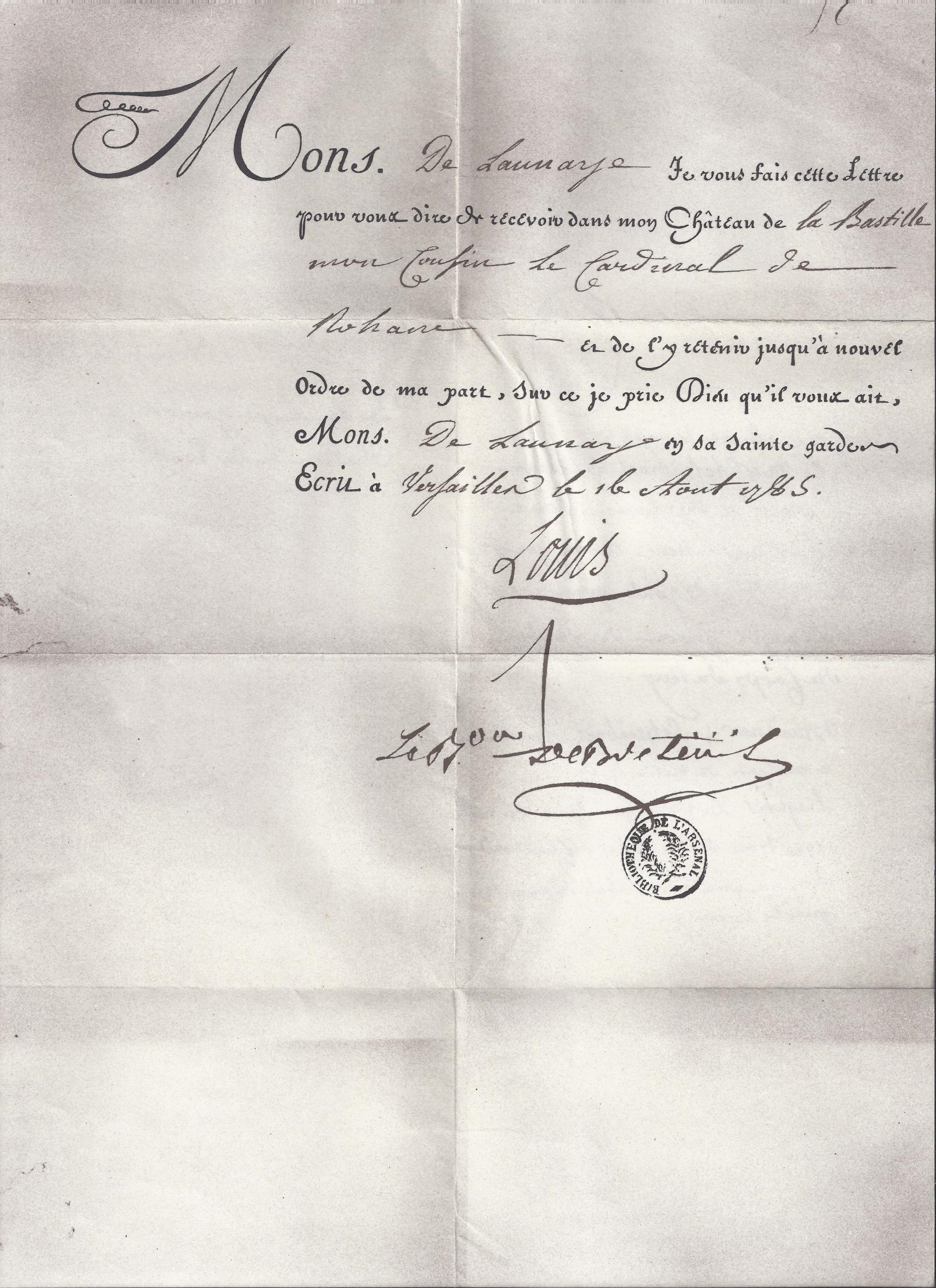 Lettre d'embastillement regarding cardinal de Rohan on the 16 August 1785 (recto of a copy).